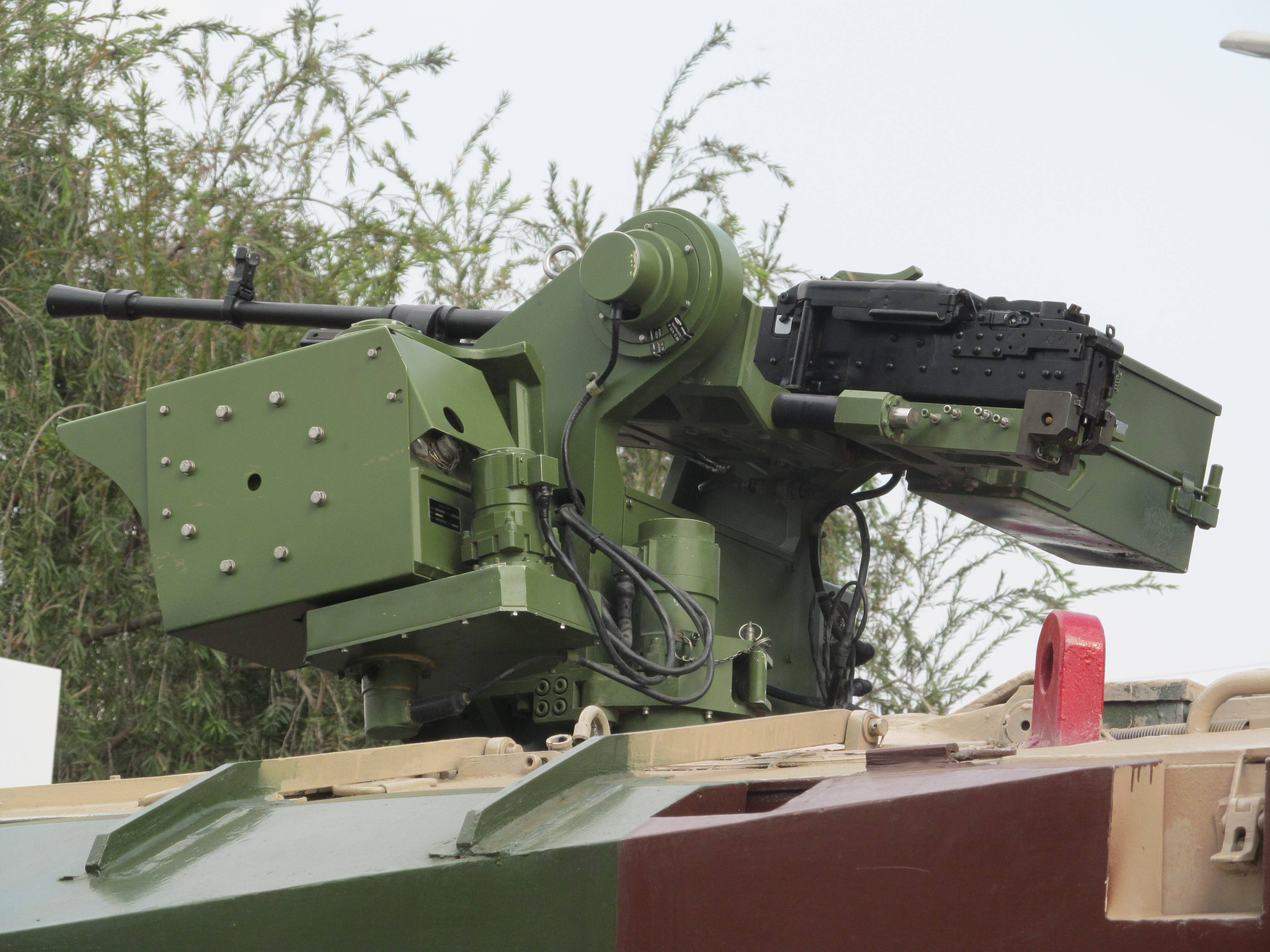 Arjun Mk II remote controlled weapon system, during DefExpo 2014, New Delhi.